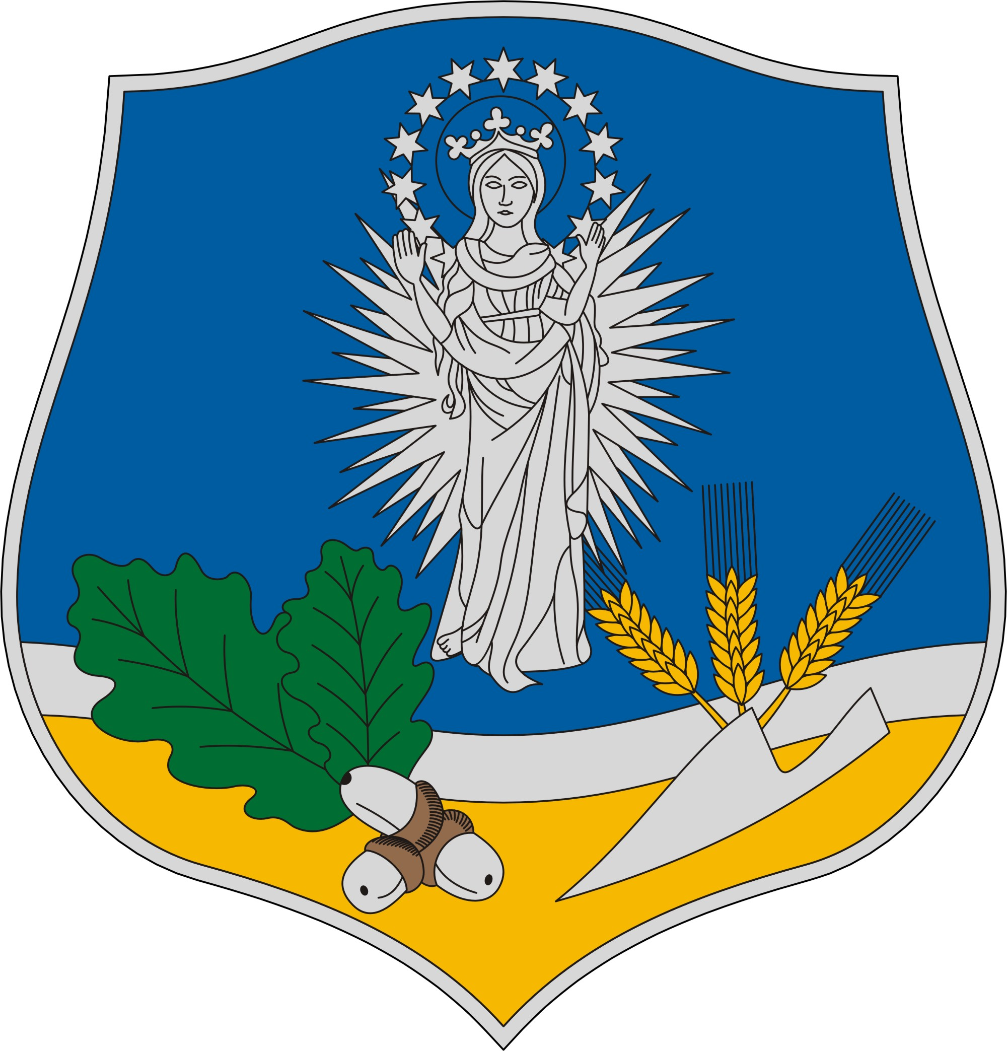 Coat of arms of Bekölce, Hungary